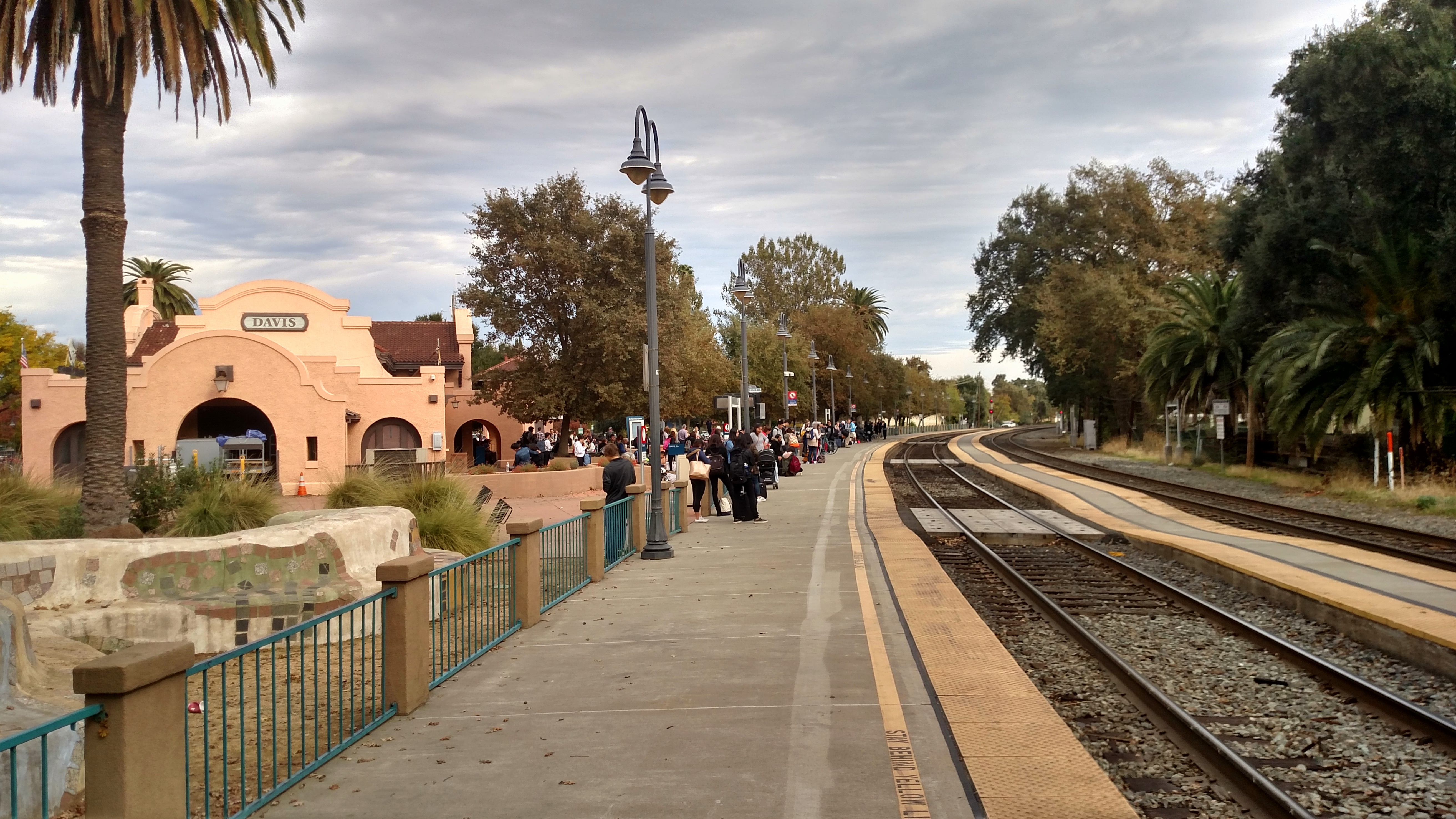 Passengers (mostly UC Davis students) await a southbound train at Davis station on the day before Thanksgiving